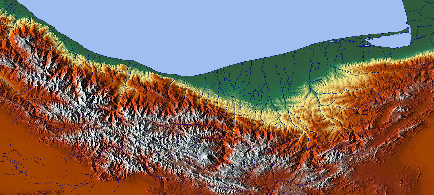 Mazandaran Relief Map